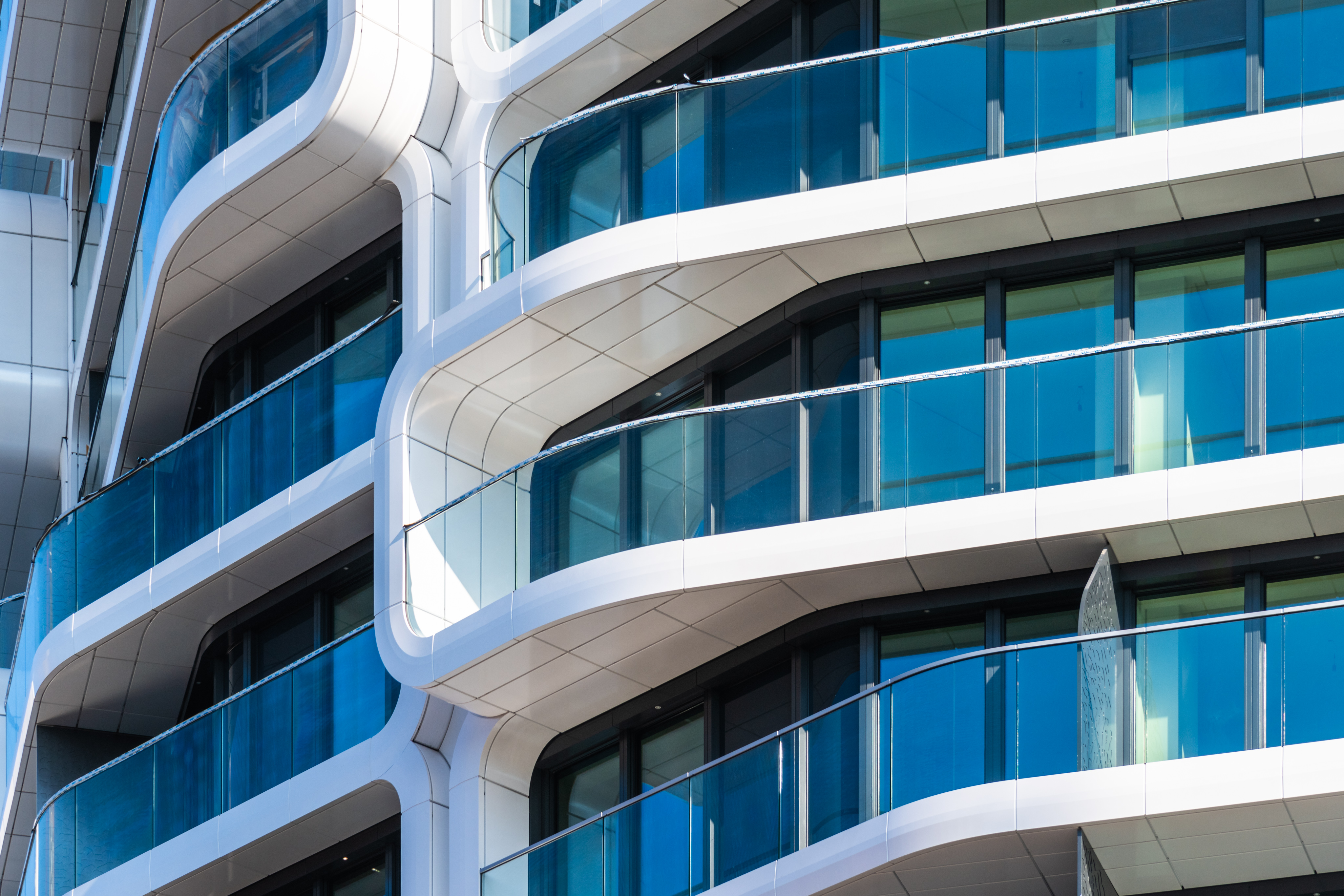 Grand Tower residential high-rise, Frankfurt am Main, Germany (February 2020). Detail of the facade